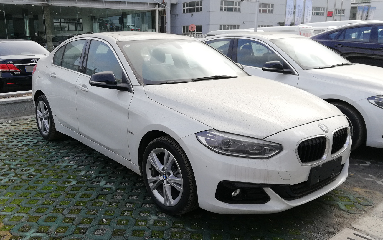 BMW 1-Series F52 photographed in Shanghai, China.